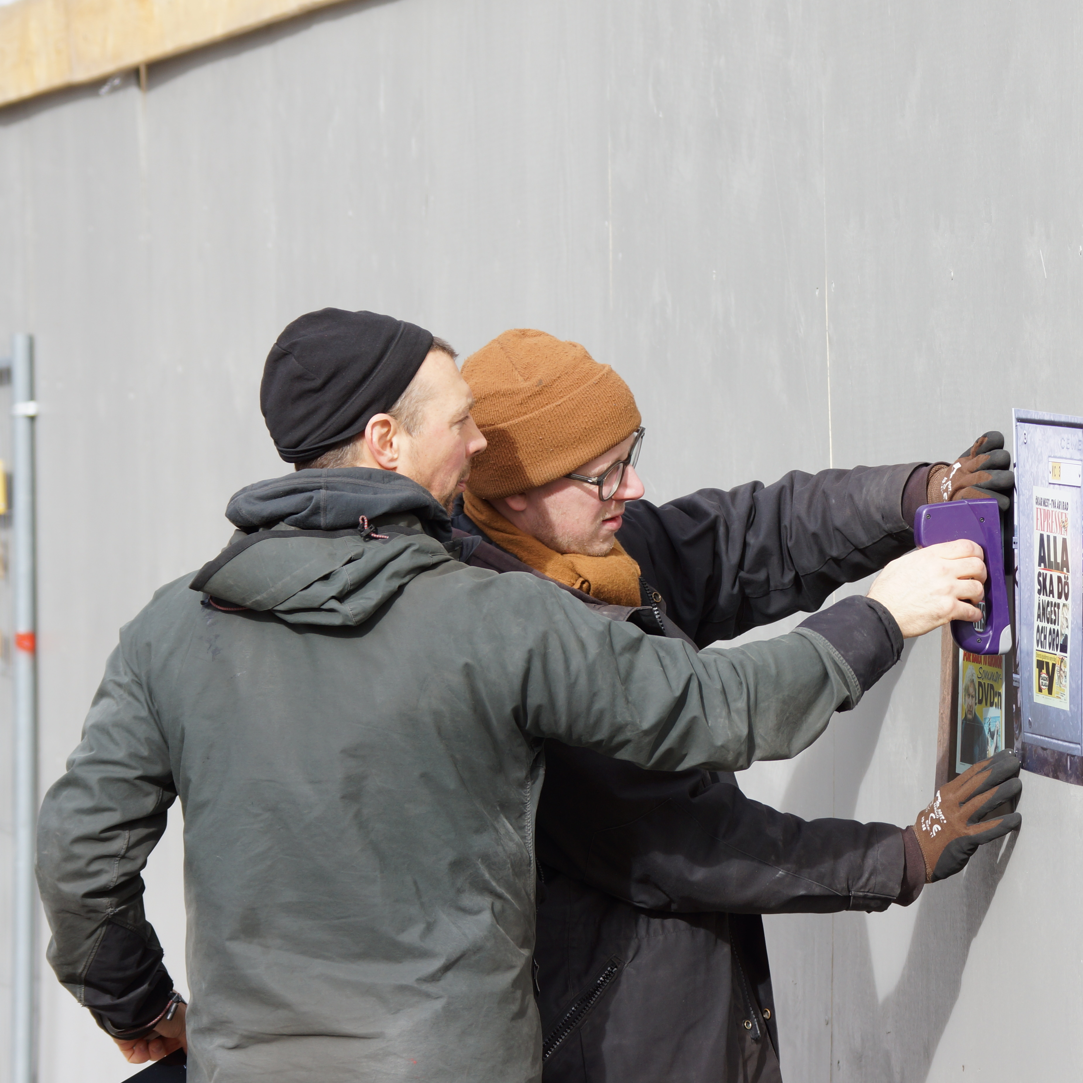 Akay and Klister-Peter (KP), putting up "fake news" street art on Skeppsholmen, Stockholm.